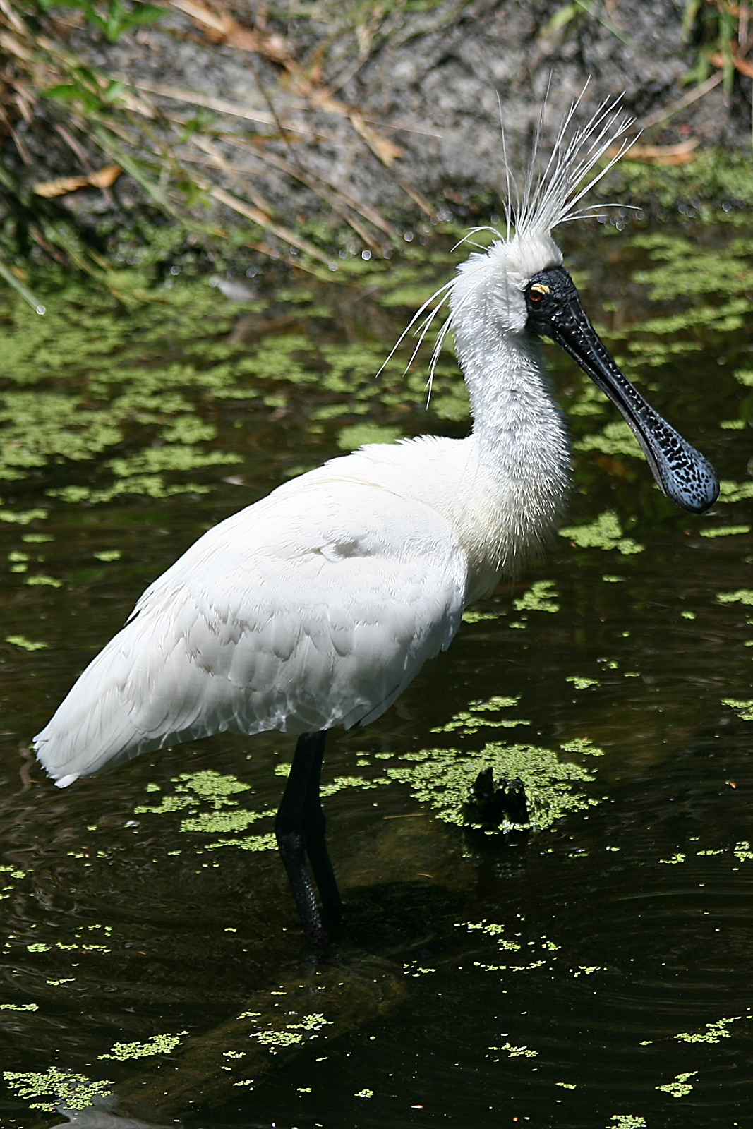 Royal or Black-billed Spoonbill, (Platalea regia), Victoria, Australia.